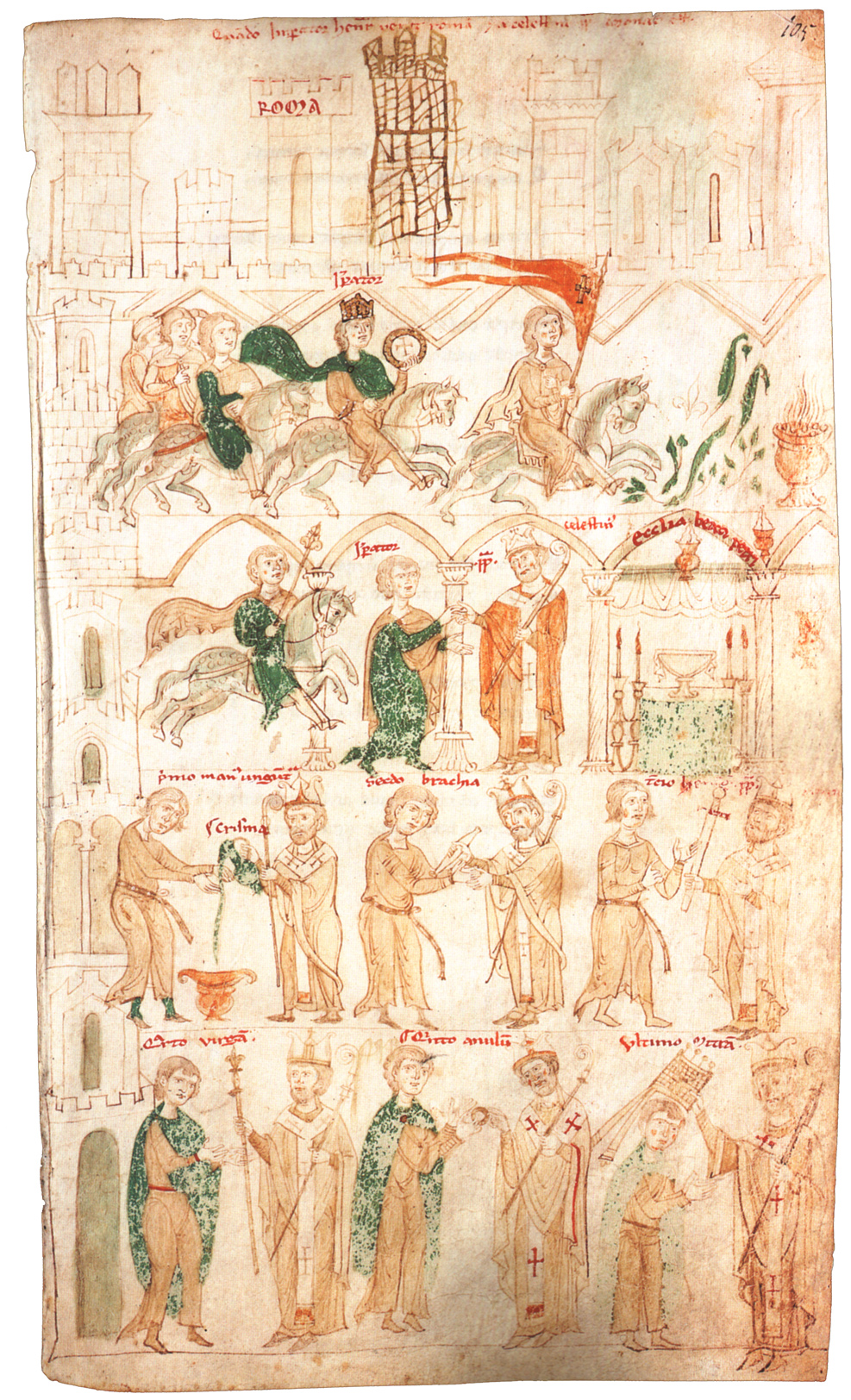 Liber ad honorem Augusti Coronation of Emperor Henry VI. by Pope Coelestin III. in 1191 Folio 105R